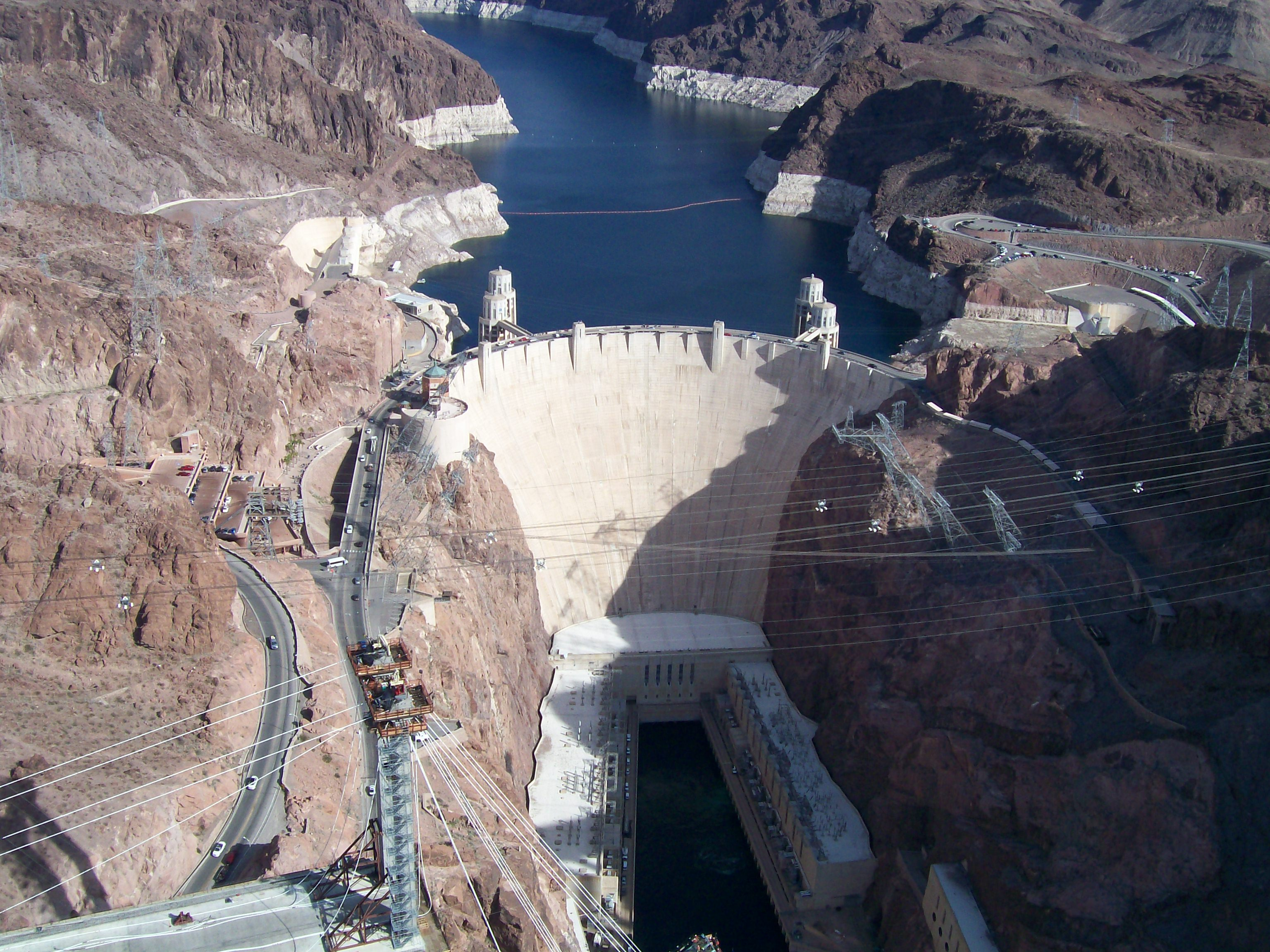 Aerial photograph of Hoover Dam with New Bridge under construction